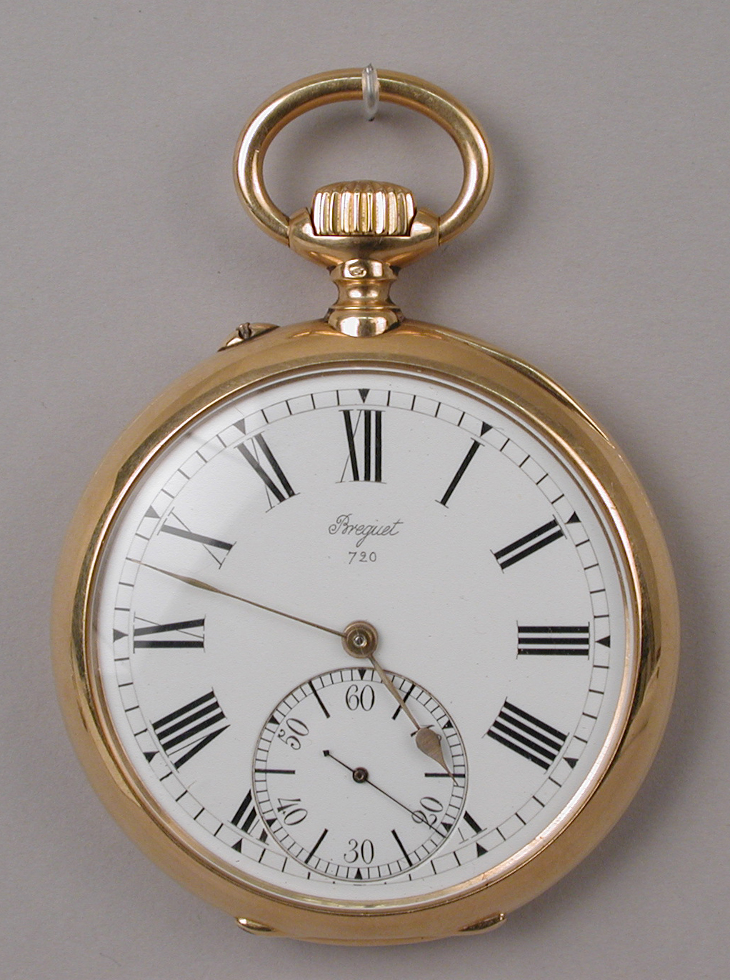 French, Paris; Pocket watch; Horology